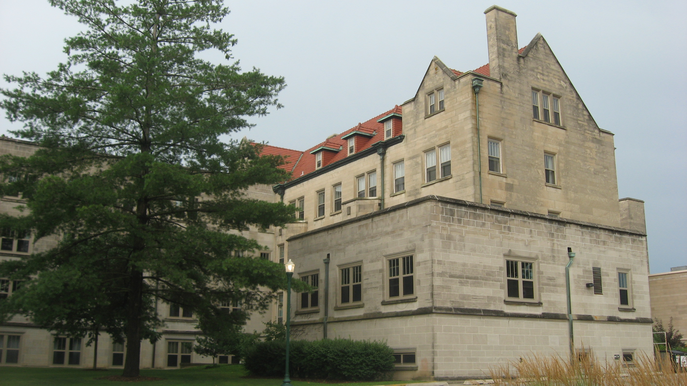 Front of Pemberton Hall on the campus of Eastern Illinois University in Charleston, Illinois, United States. Built in 1909, it is listed on the National Register of Historic Places.